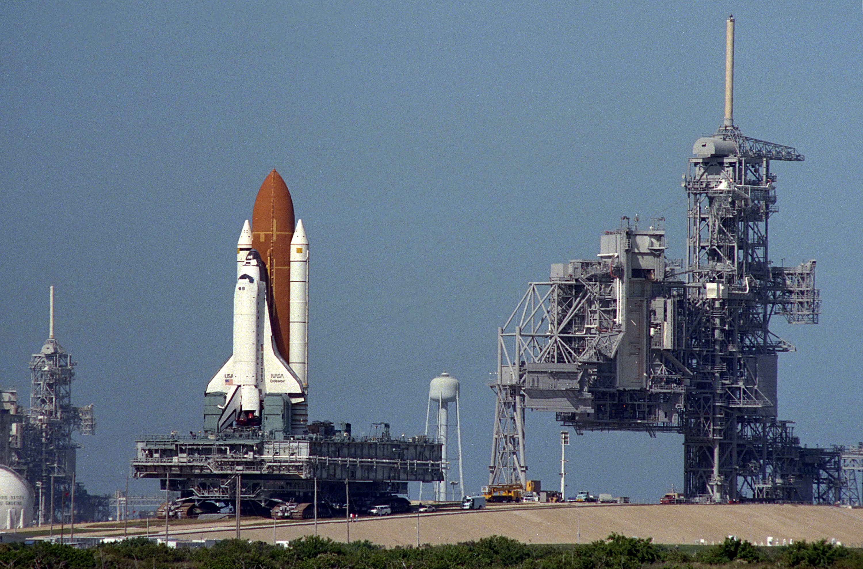 The Space Shuttle Endeavour is being rolled around from Launch Pad 39A to Launch Pad 39B. The rare pad switch was deemed necessary after contamination was discovered in the Payload Changeout Room at Pad A. The transfer began around noon and was completed about seven hours later. Still to come are the payloads for the upcoming STS-61 mission, the first servicing of the Hubble Space Telescope.